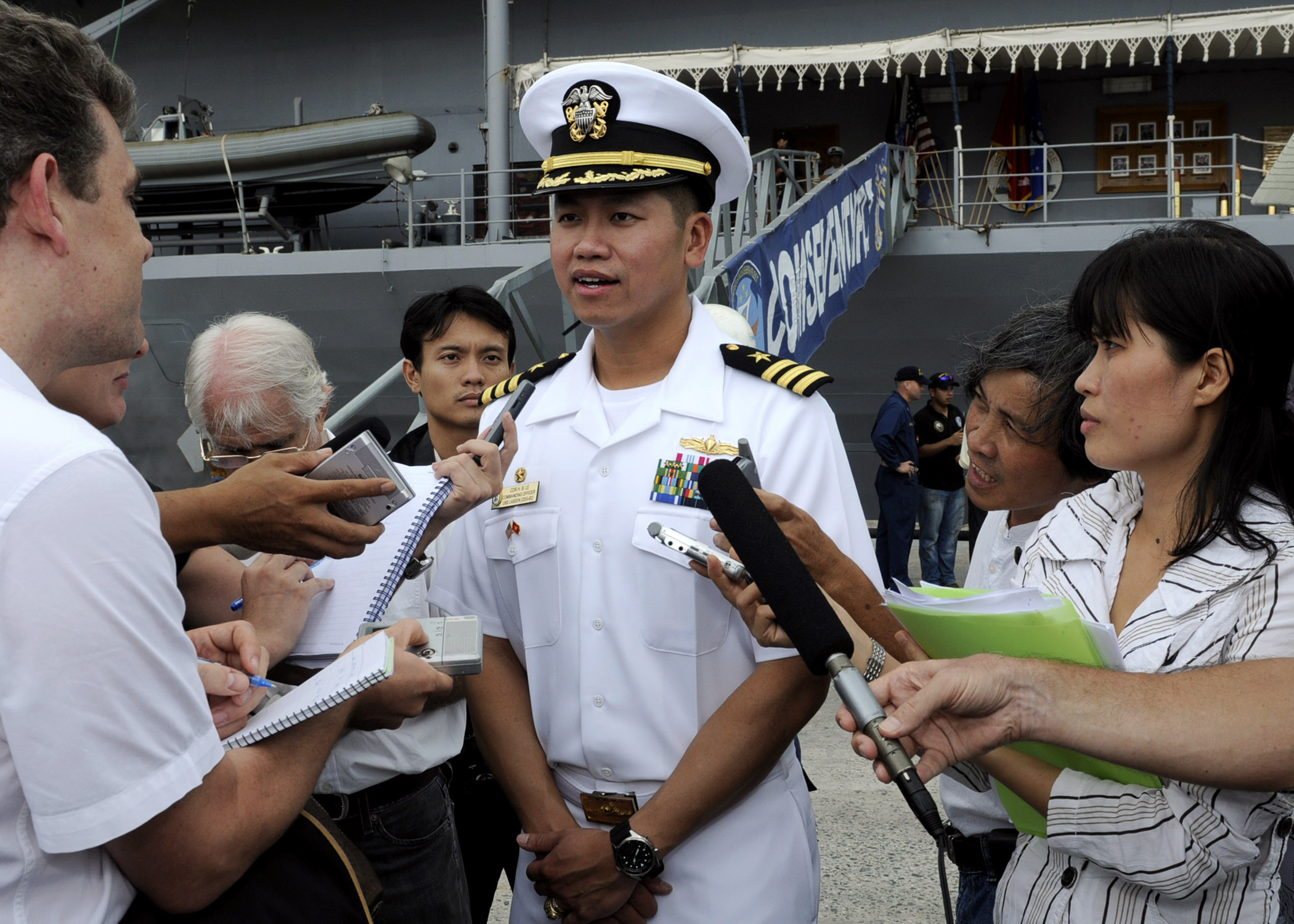 DA NANG, Vietnam (Nov. 7, 2009) Cmdr. H.B. Le, commanding officer of the Arleigh Burke-class guided-missile destroyer USS Lassen (DDG 82), speaks to the press in front of the amphibious command ship USS Blue Ridge (LCC 19). Blue Ridge and Lassen are in Da Nang for a scheduled port visit. This is Le's first visit to Vietnam after leaving the country with his family in 1975. (U.S. Navy photo by Mass Communication Specialist 2nd Class Cynthia Griggs/Released)